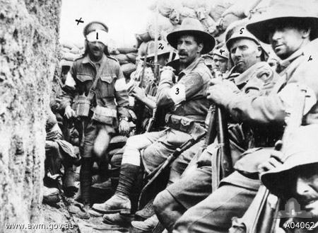 AWM caption : Ottoman Empire: Turkey, Gallipoli, Lone Pine. [Australian] 1st Battalion troops having taken 80 yards of a Turkish trench, waiting near Jacob's Trench for relief by the 7th Battalion. Identified from left: 1. Captain Cecil Duncan Sasse, (with eyes bandaged, later Lieutenant Colonel, DSO and Bar, MID) 3. 2211 Private George Wood (with legs crossed) 5. 2173 Private Martin Maher, (smoking pipe) 6. 2138 Private Walter Finn (hands near rifle muzzle) unidentified (not numbered) These men had been fighting continuously from the beginning of the Lone Pine attack on 6 August 1915.